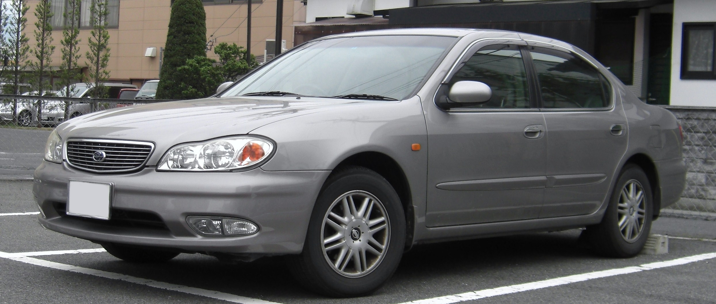 NISSAN Cefiro 25 Excimo G/L Selection